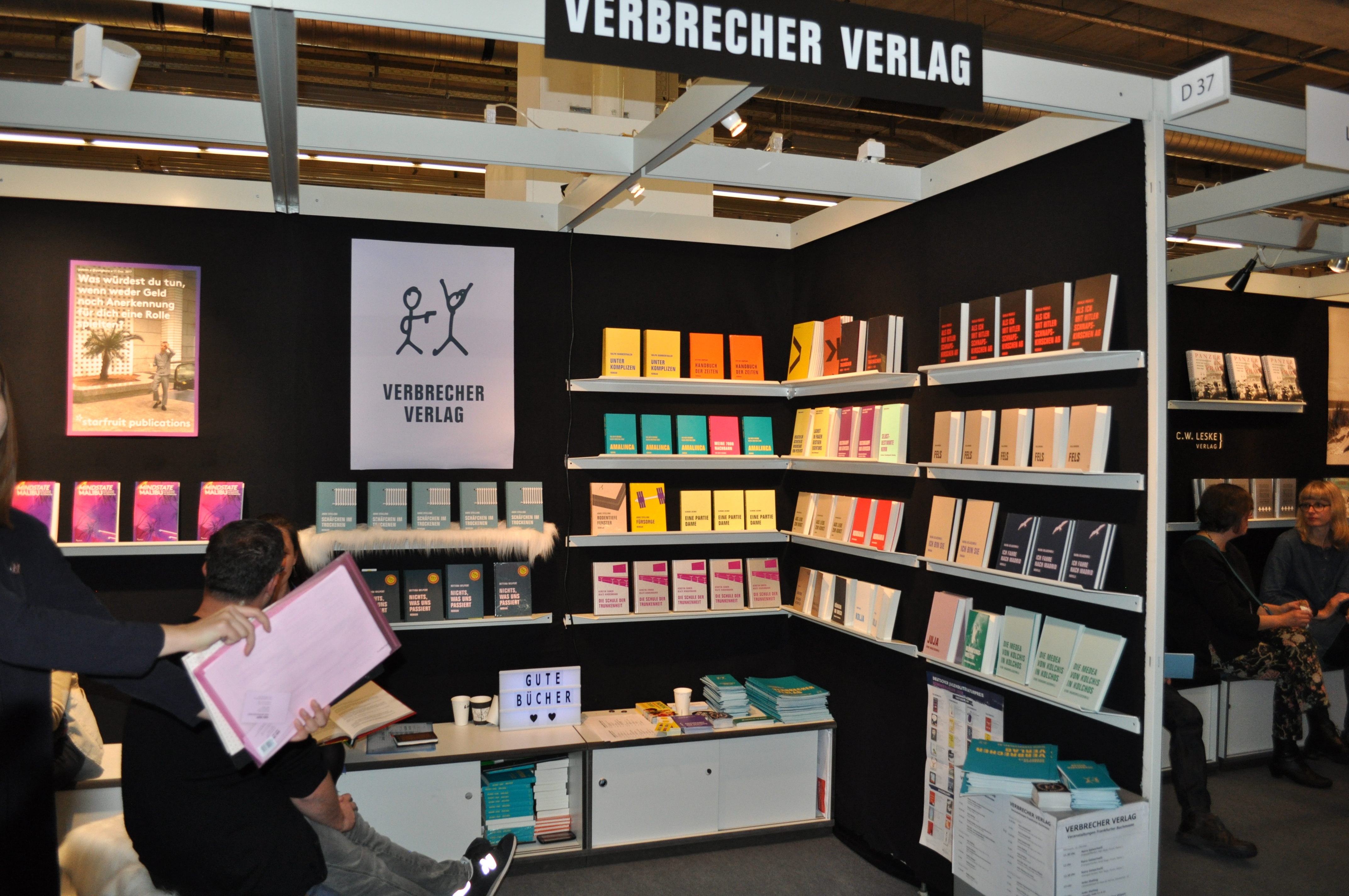 Exhibition stand of Verbrecher Verlag at Frankfurt Bookfair 2018